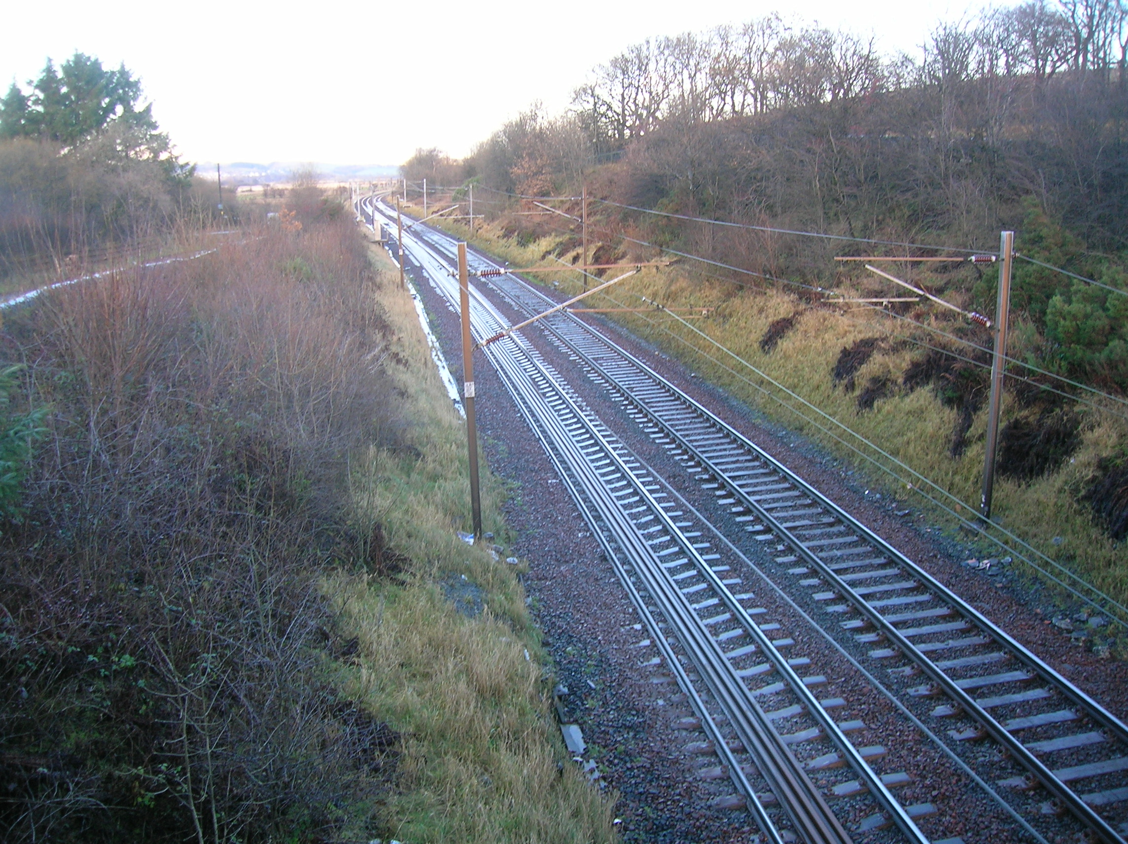 Site of the old Beith North Station on the line to Glasgow from Ayr.